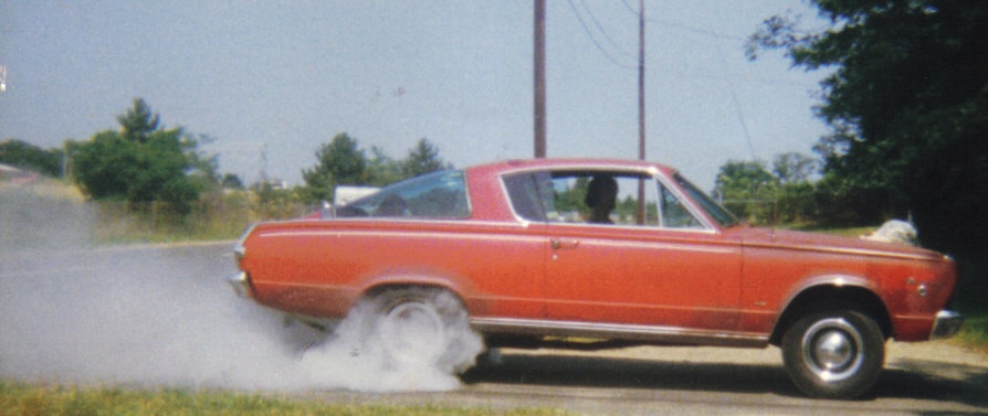 Bert Plume's 1966 Barracuda on a burnout in Ronkonkoma, NY